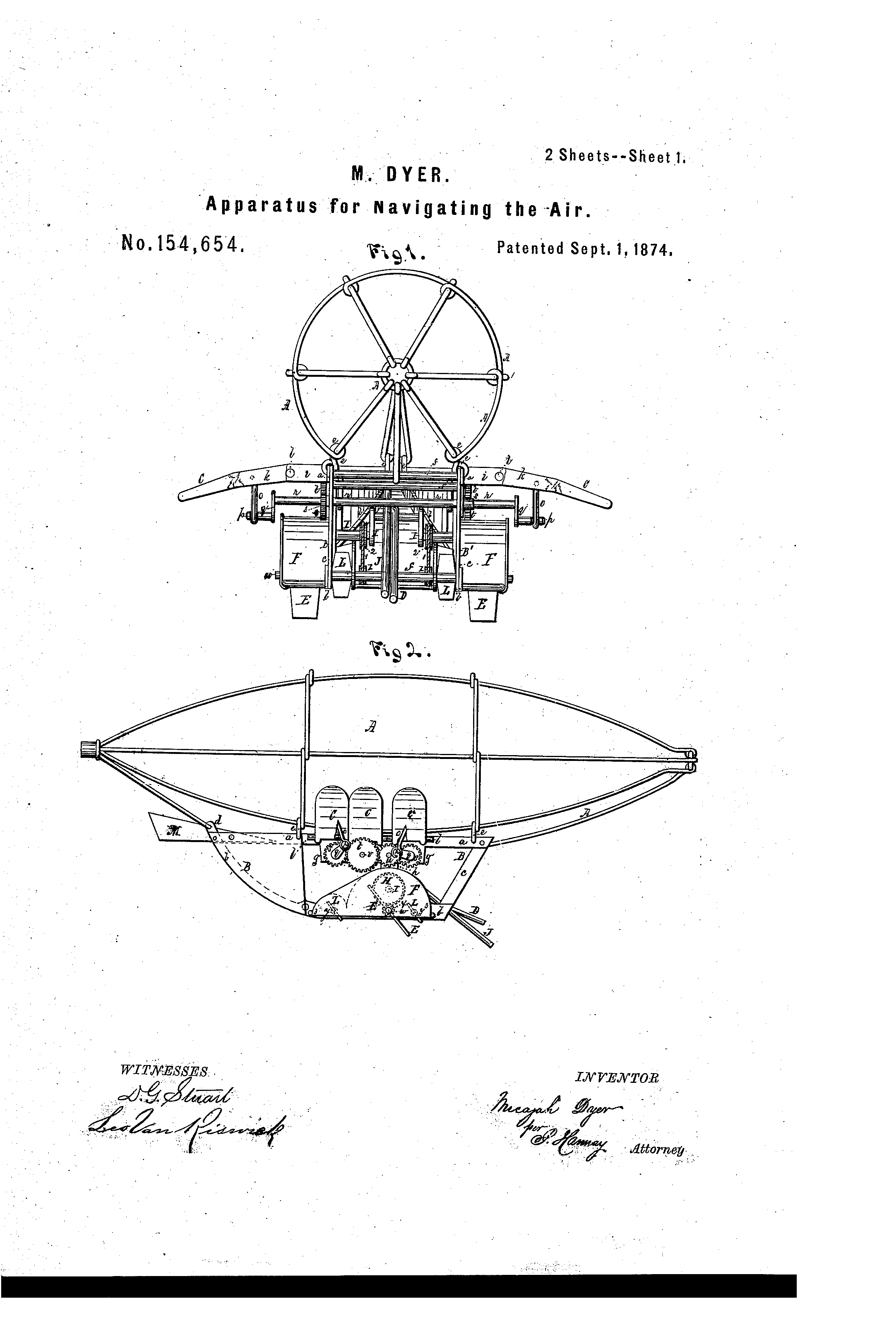 A drawing included in the 1874 US patent for an "Apparatus for navigating the air". Available at: It is relevant to Airship#Early_pioneers